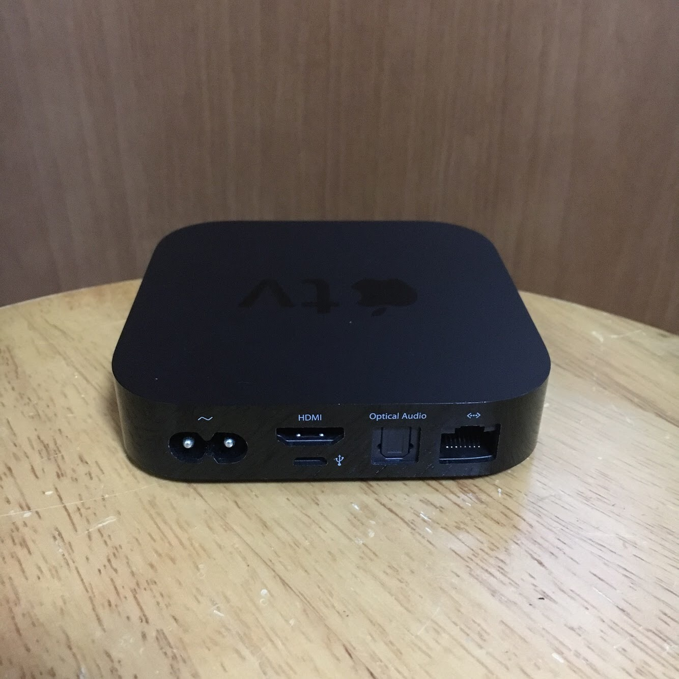 rear view of Apple TV 3rd generation